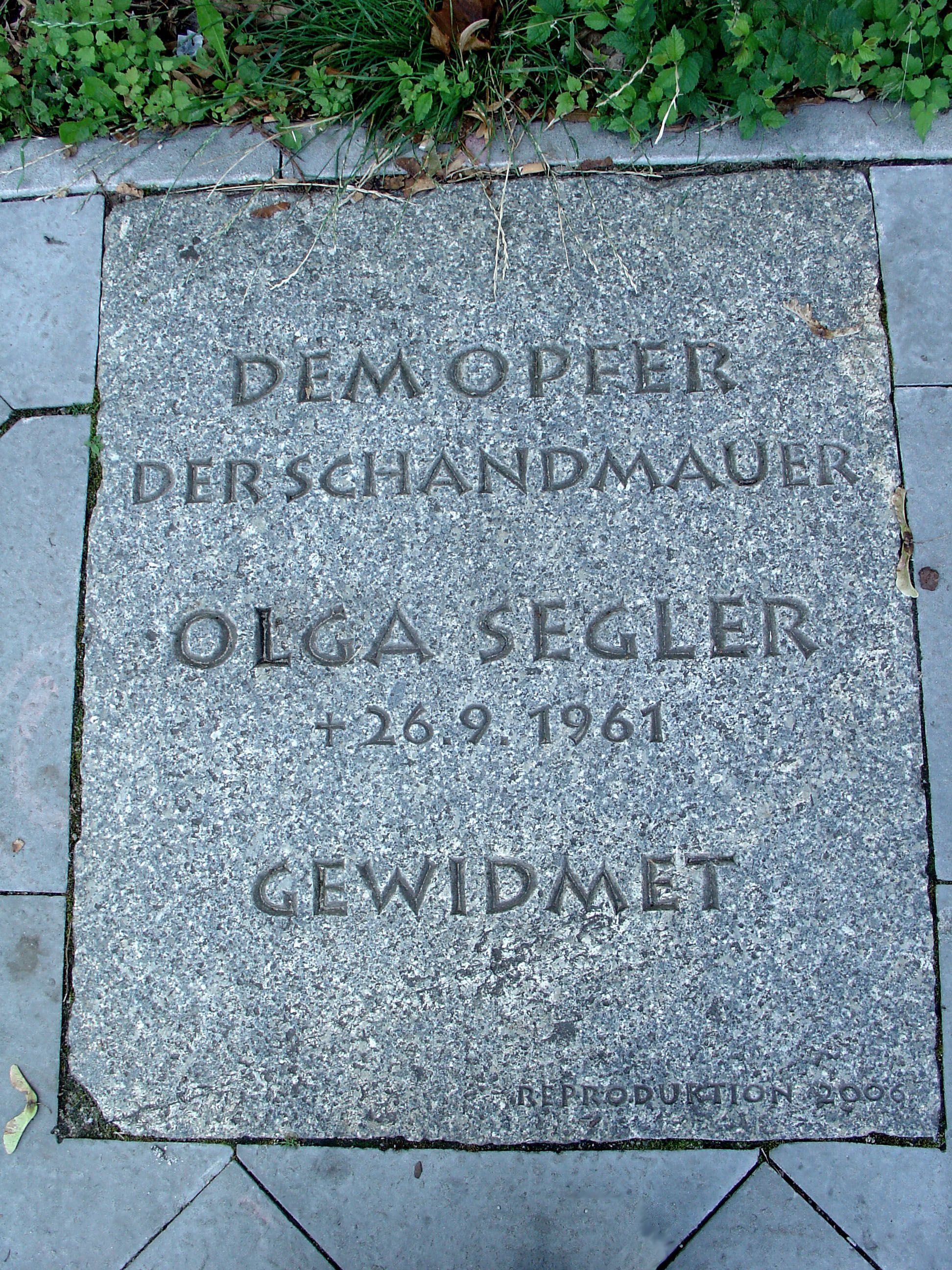 Monument for the Berlin Wall victim Olga Segler; Berlin, Bernauer Strasse. The text says: "Dedicated to the victim of the wall of shame, Olga Segler, † 26-Sep-1961. Reproduced 2006".